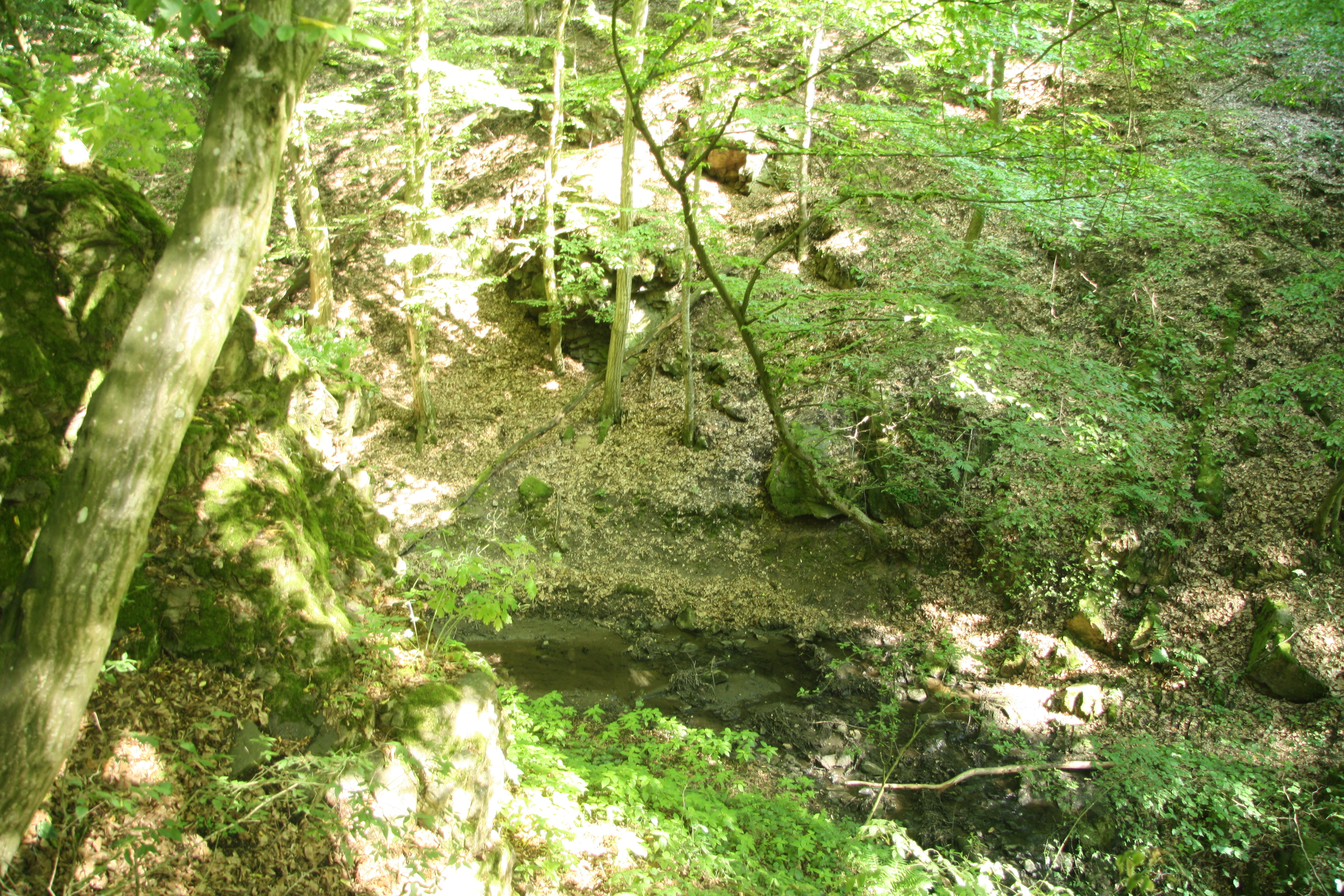 Overview of protected area Mohelnička in Lhánice, Třebíč District.